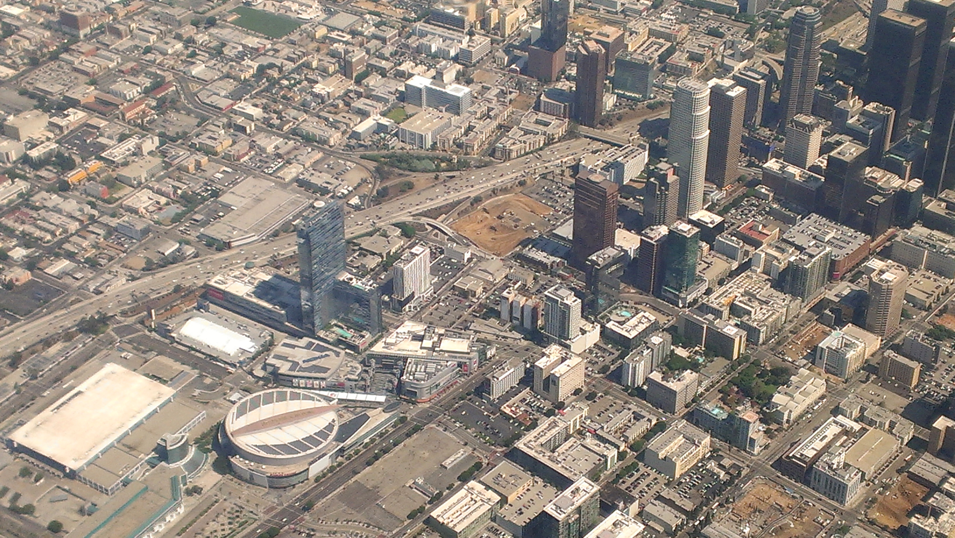 Downtown Los Angeles. LA Live and Staples Center to left